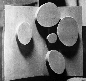 Photograph